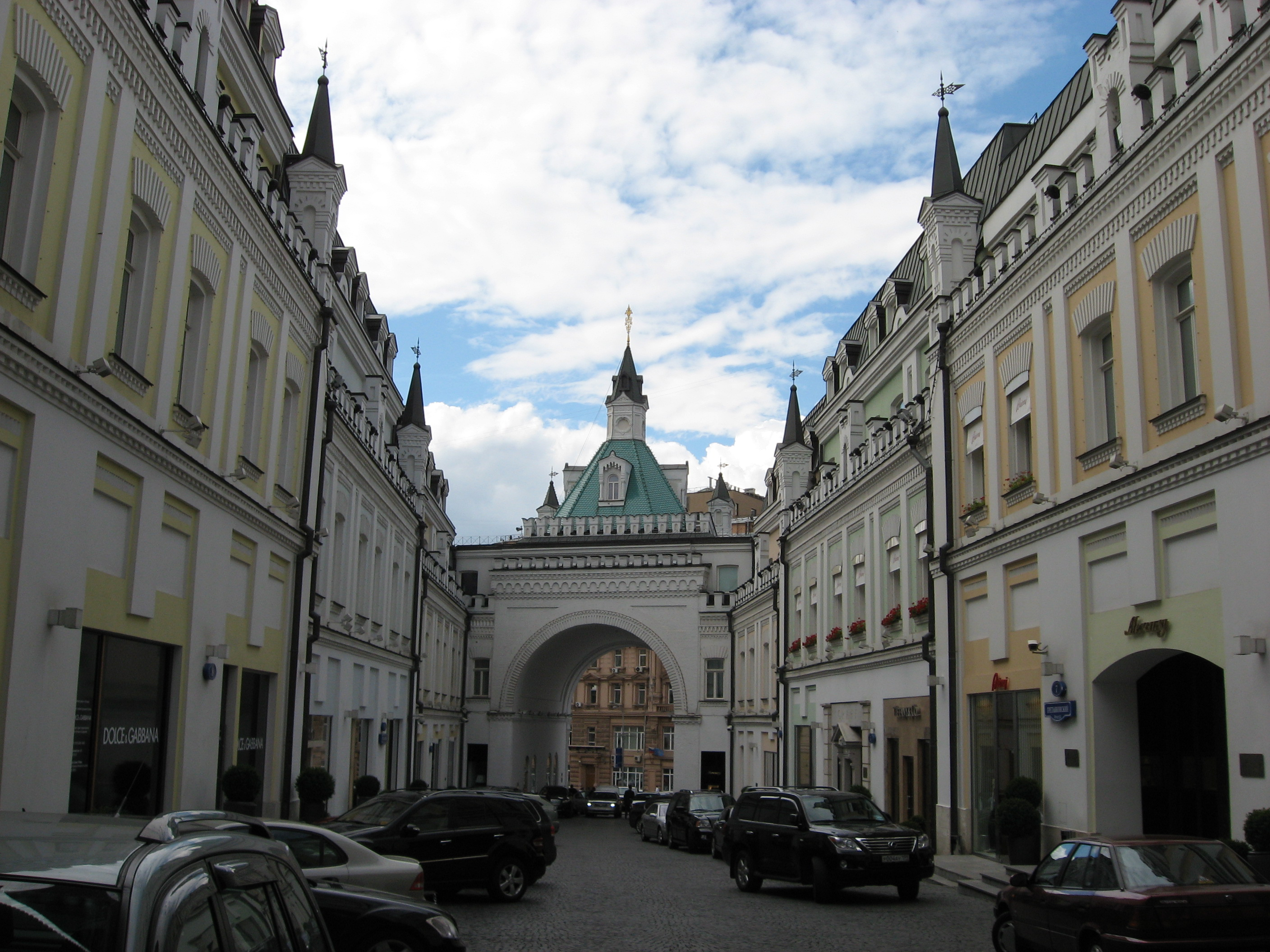 Tretyakovsky Proyezd